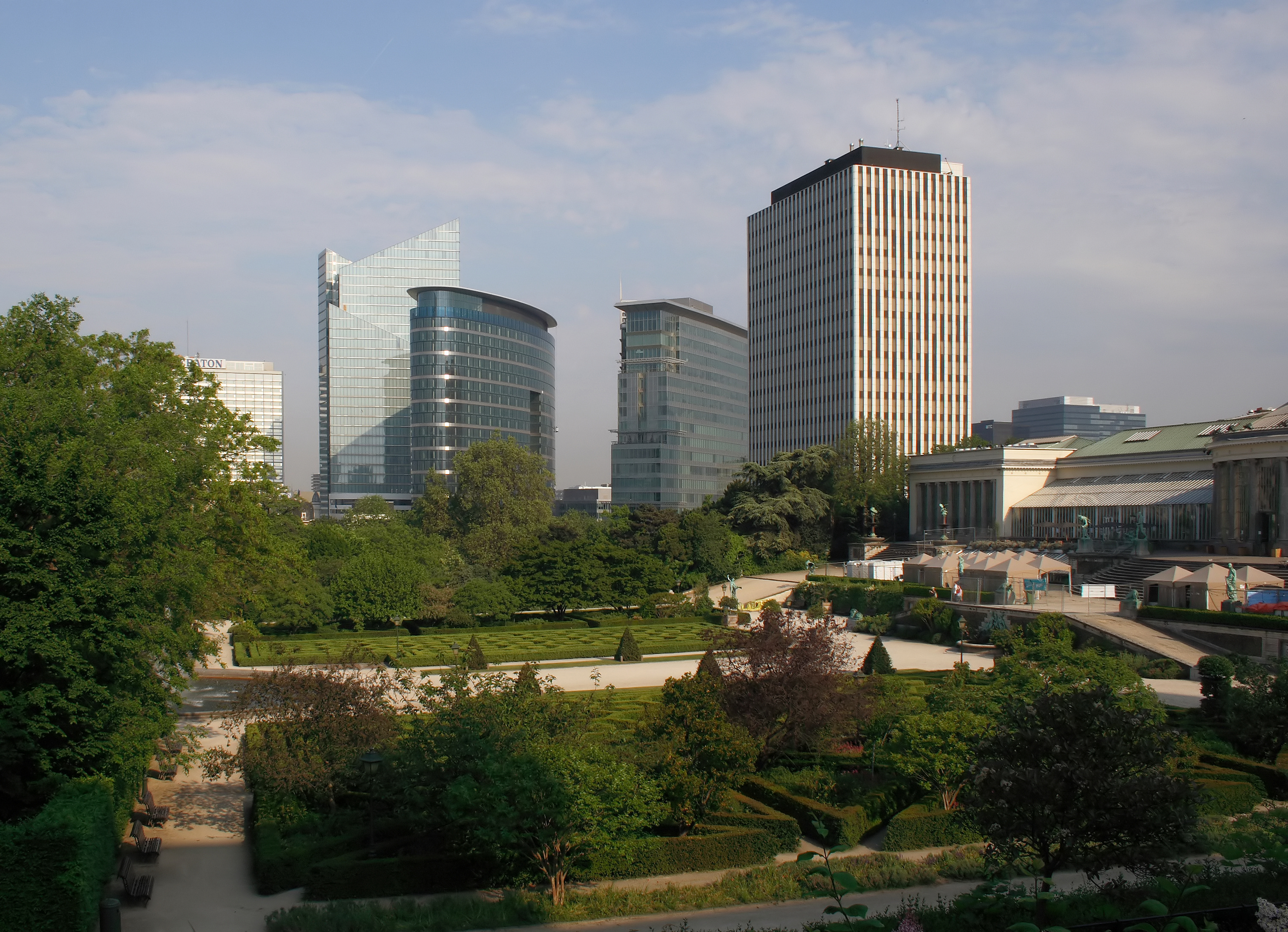 View of the Espace Nord business district in Brussels, seen over the Botanical Garden This is a retouched picture, which means that it has been digitally altered from its original version. Modifications: bit noise, bit curves, bit perspective by Lycaon.